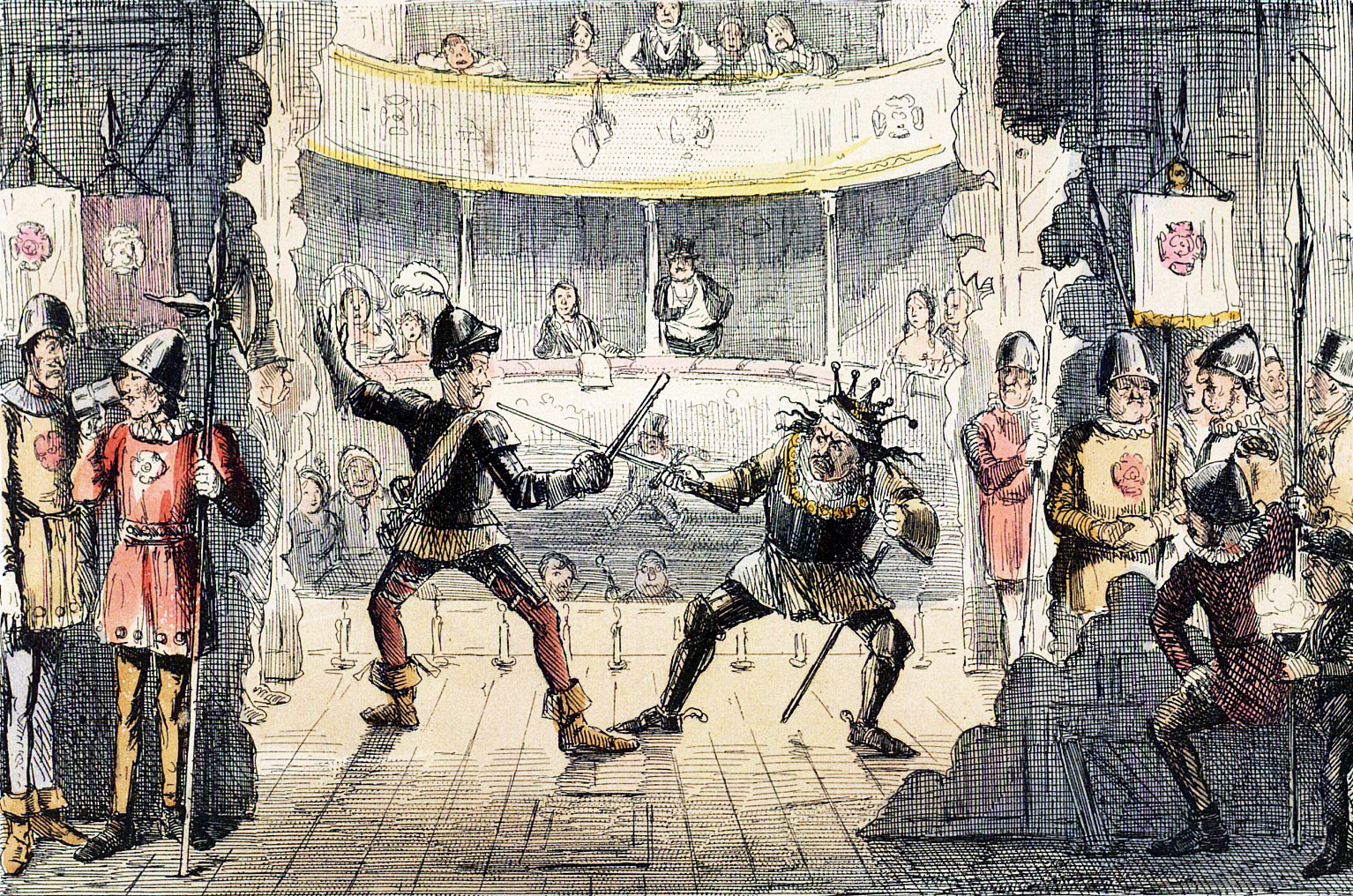 The Battle of Bosworth Field - A Scene from the Great Drama of History: John Leech's illustration of Gilbert Abbott à Beckett's parodical criticism of the Victorian attitude towards history.